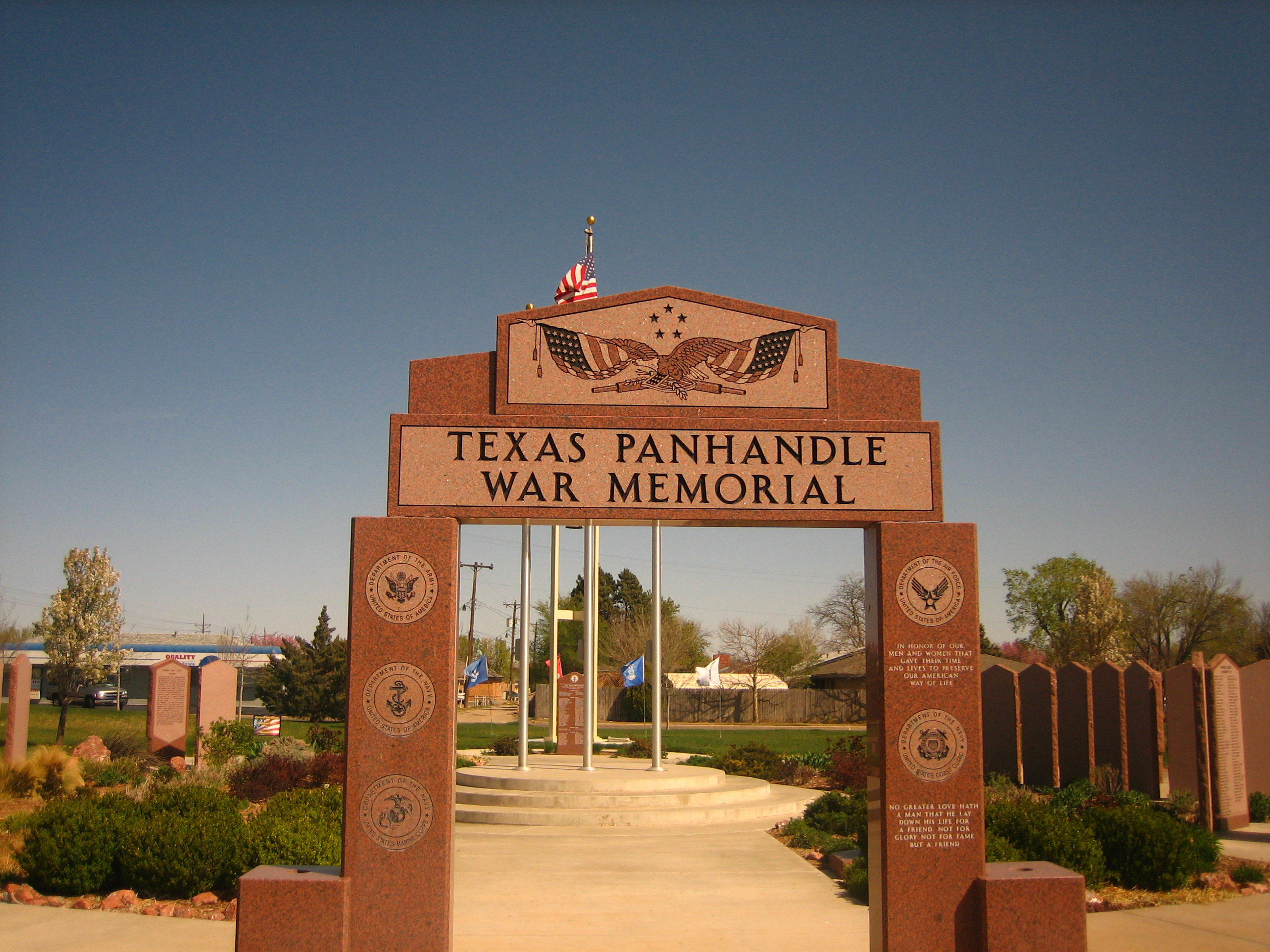 I took photo, April 6, 2008.Billy Hathorn (talk) 03:59, 27 June 2008 (UTC)